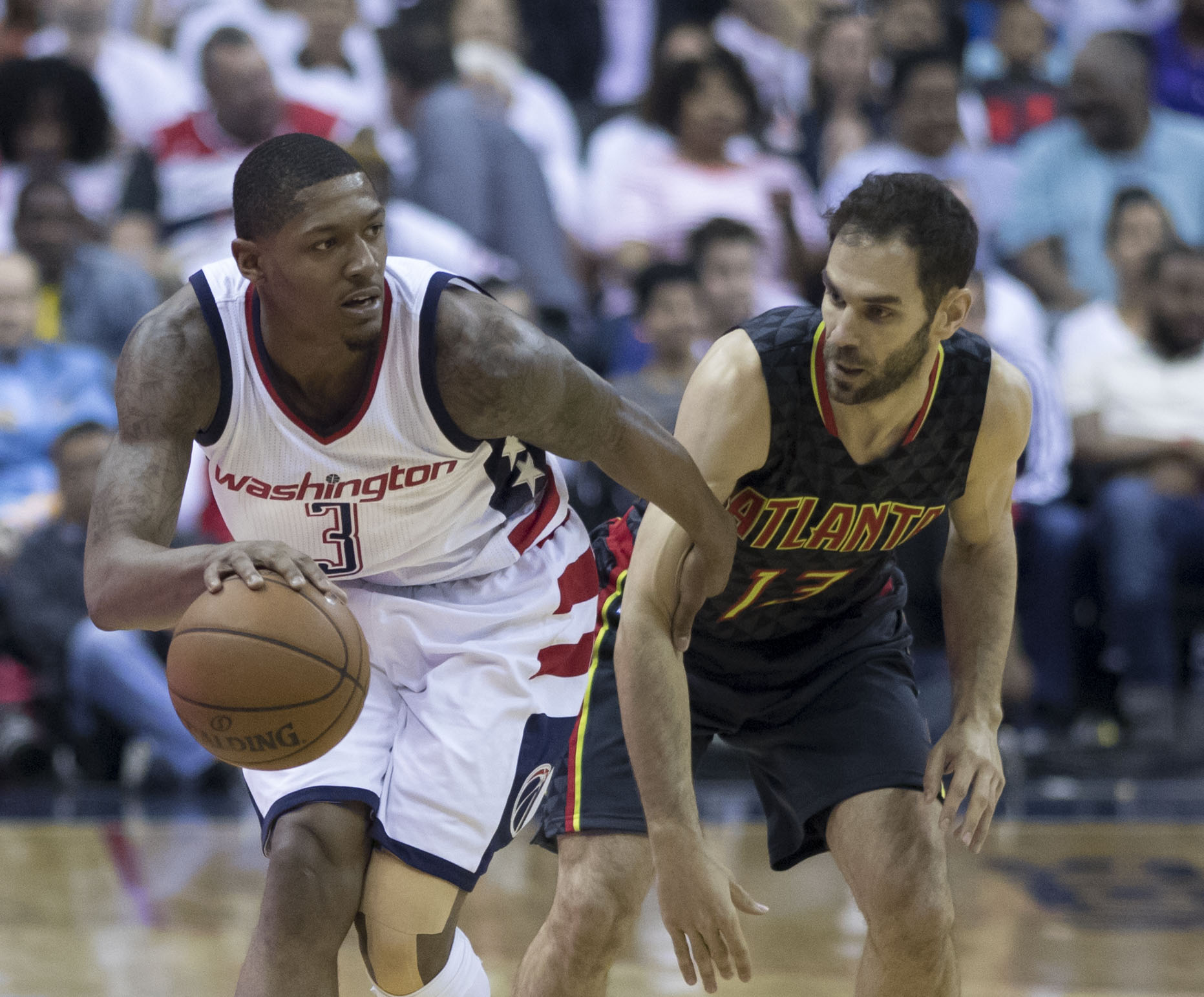 Hawks at Wizards Round 1 Playoffs 4/16/17